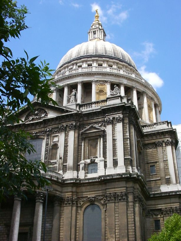 St. Paul's Cathedral